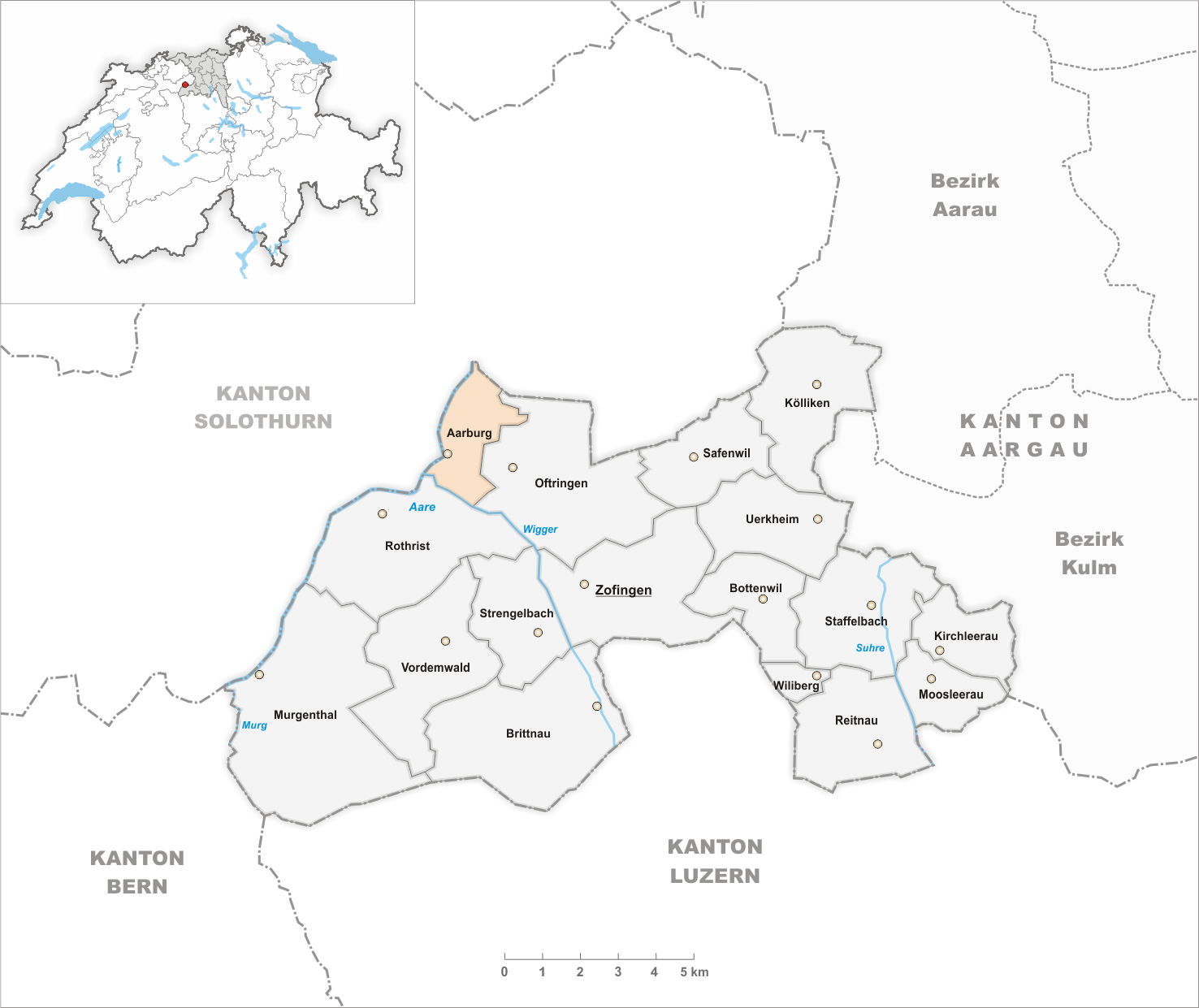 Municipality Aarburg